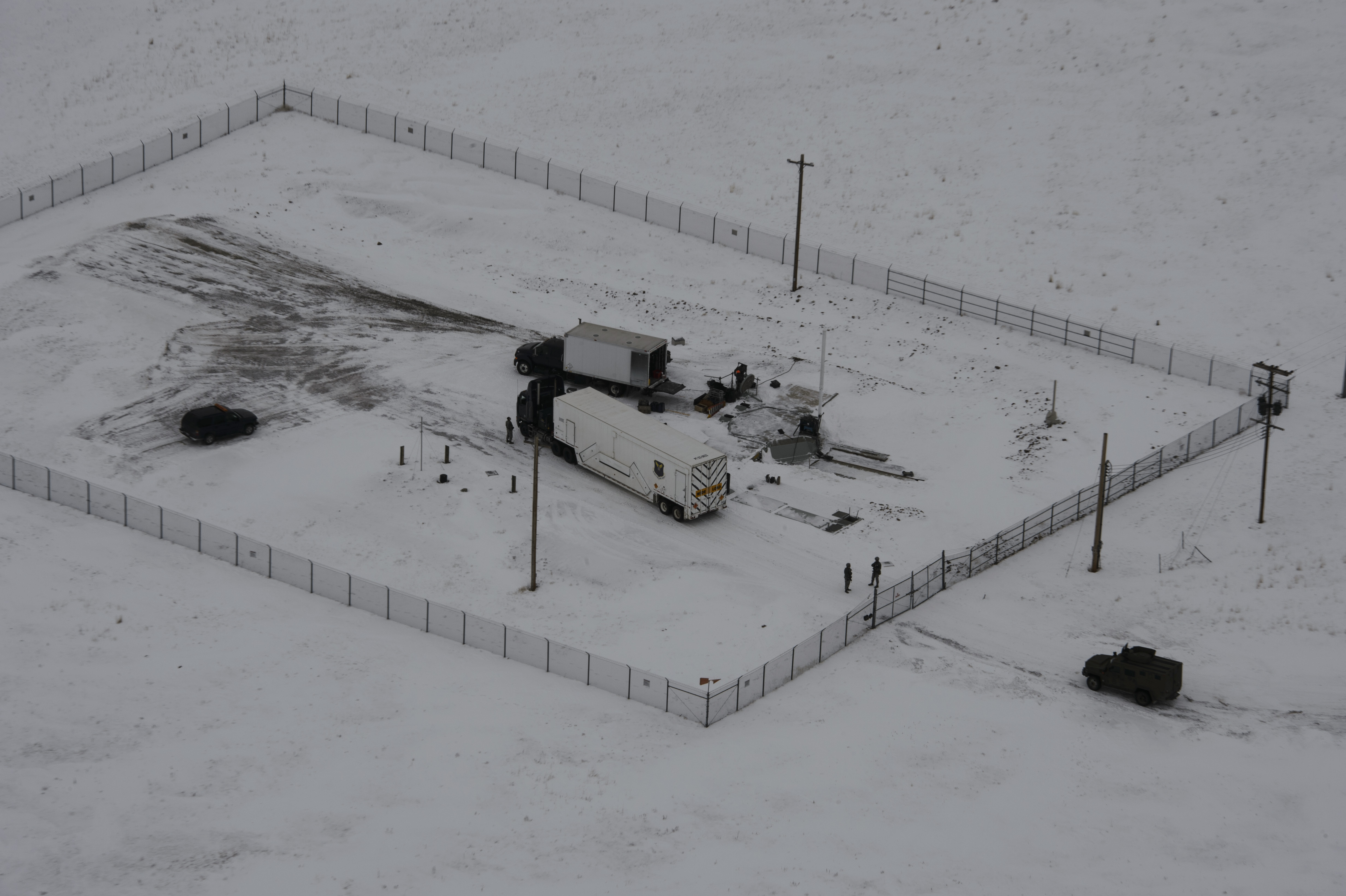 U.S. Air Force 341st Missile Maintenance Squadron transports a new re-entry system to be installed at an Intercontinental Ballistic Missile launch facility near Malmstrom Air Force Base, Mont., Feb. 7, 2014. The 341st MMS maintains the immediate launch readiness of 150 Minuteman III ICBMs and 15 missile alert facilities spread over a 13,800 square-mile complex. (U.S. Air Force photo by Staff Sgt. Jonathan Snyder/RELEASED)